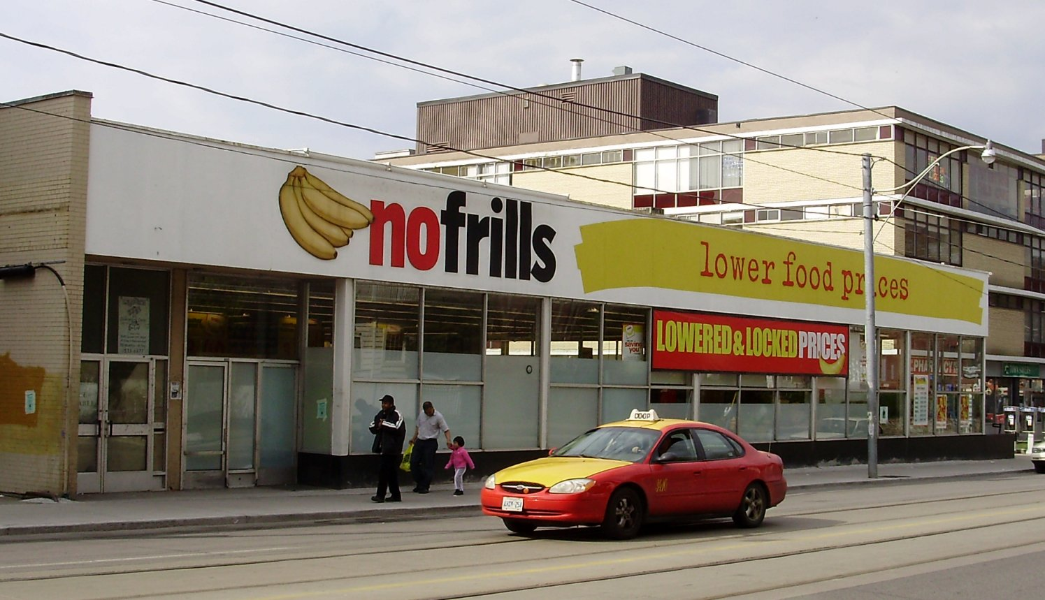 A no frills grocery store in the Toronto neighborhood of Parkdale.